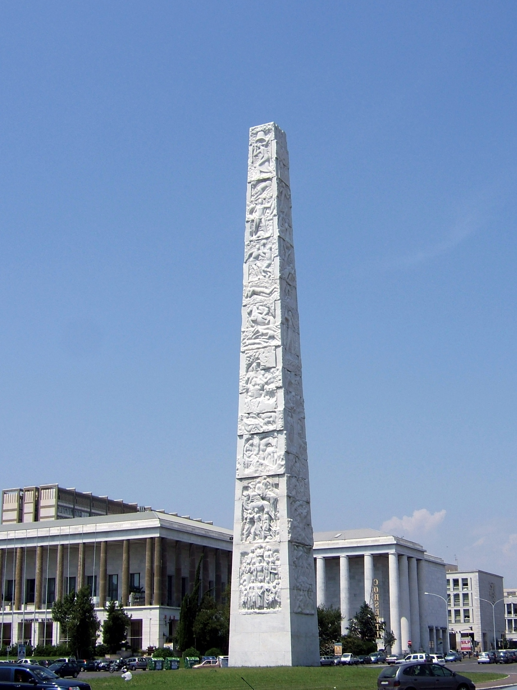 2007-06-11 in Rome.